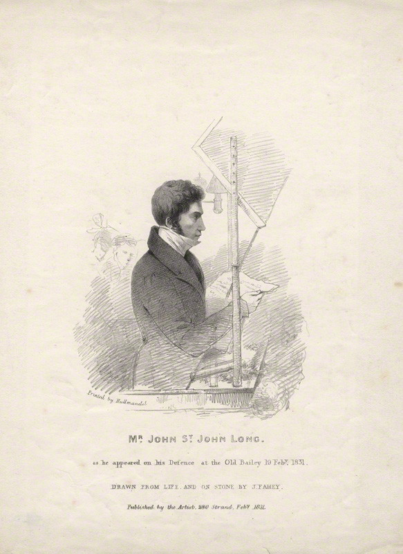 by J. Fahey, lithograph, 1831